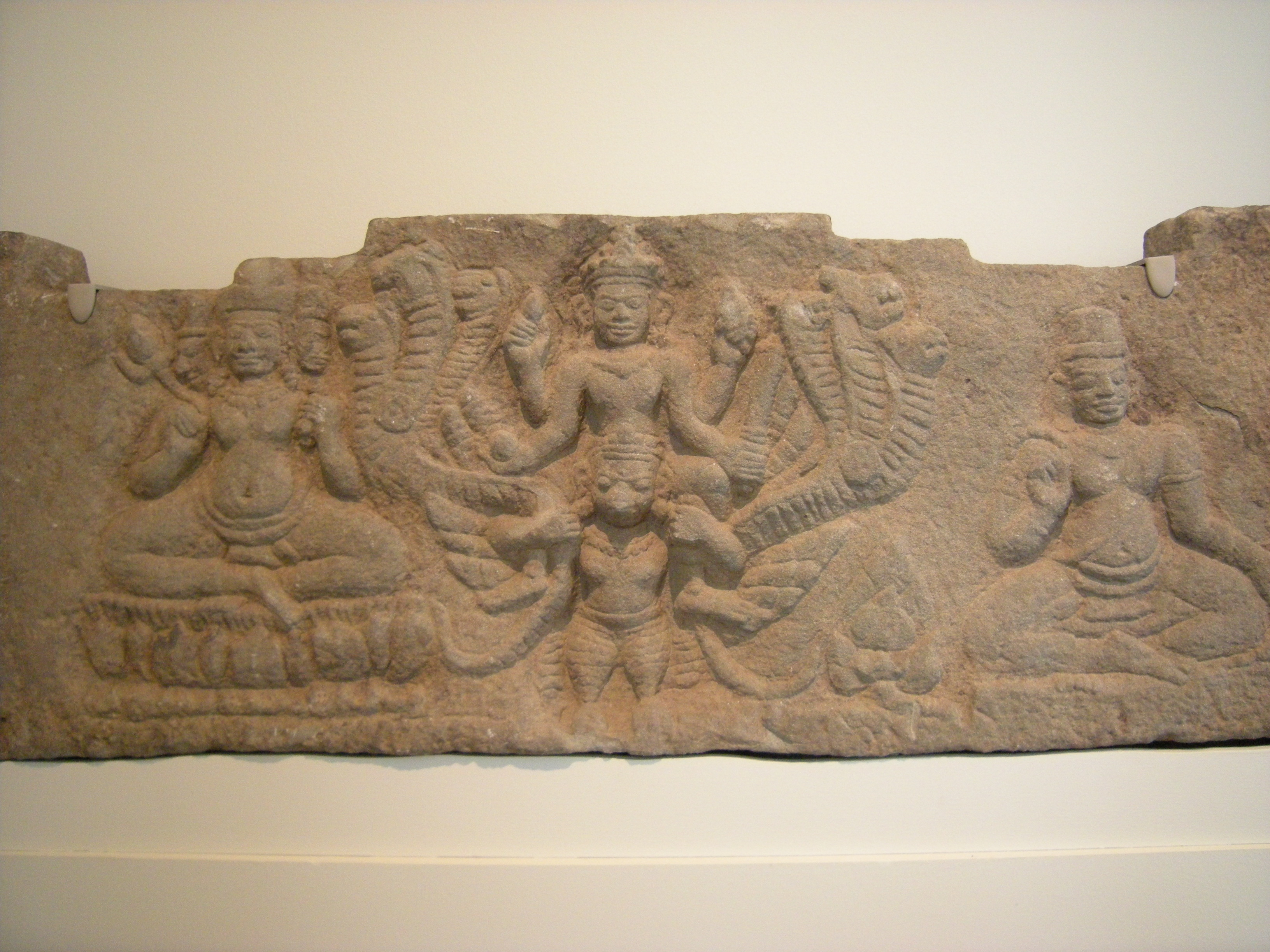 10th century Cambodian sandstone architectural panel, Trammell and Margaret Crow Collection of Asian Art, Dallas, Texas. Vishnu at center, mounted on the bird-man Garuda. Flanked on left by a four-headed Brahma and on the right by Bishnakum (so says the plaque at the museum; better known as Vishvakarman), god of architecture.